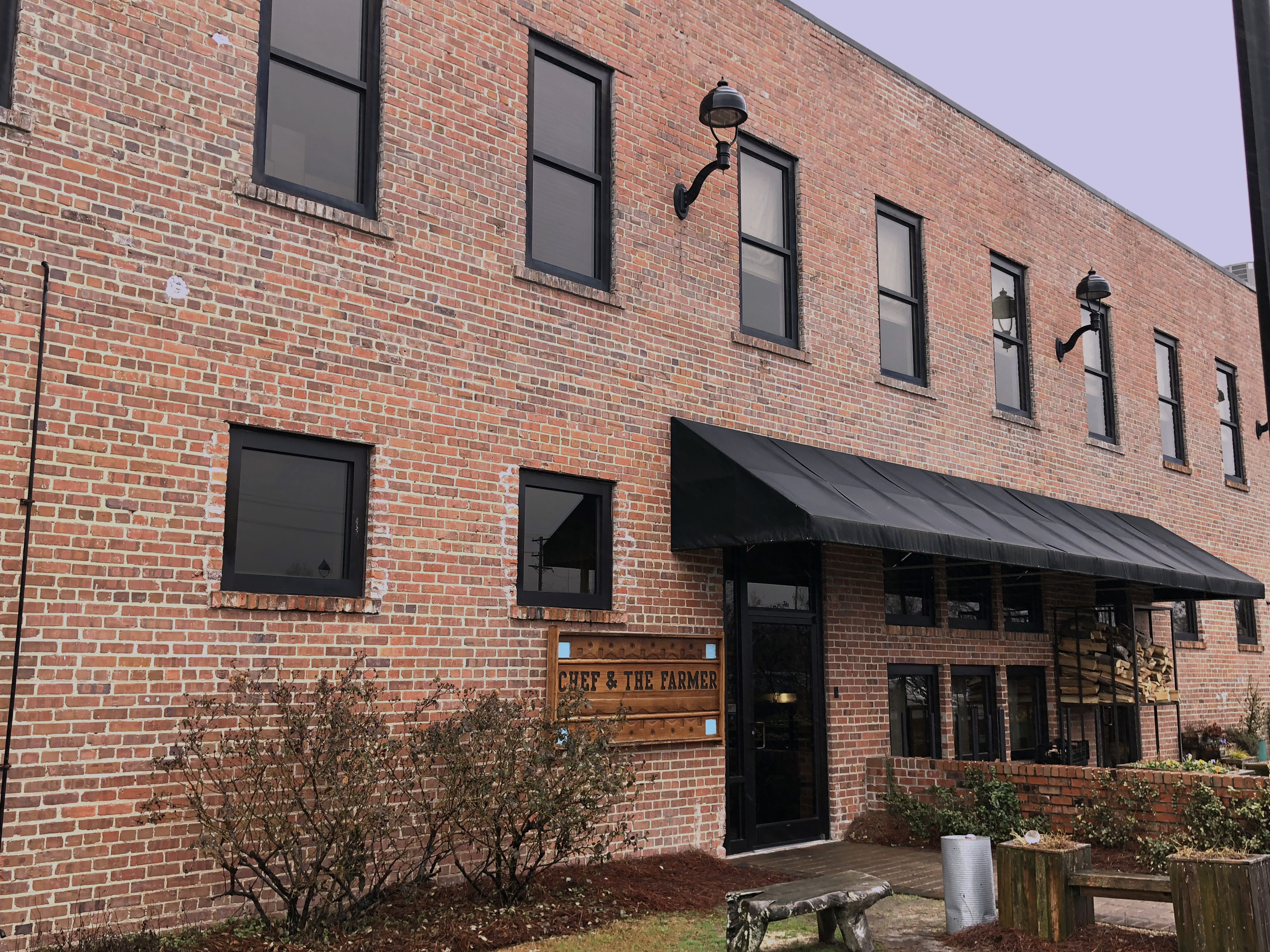 Chef & the Farmer Exterior